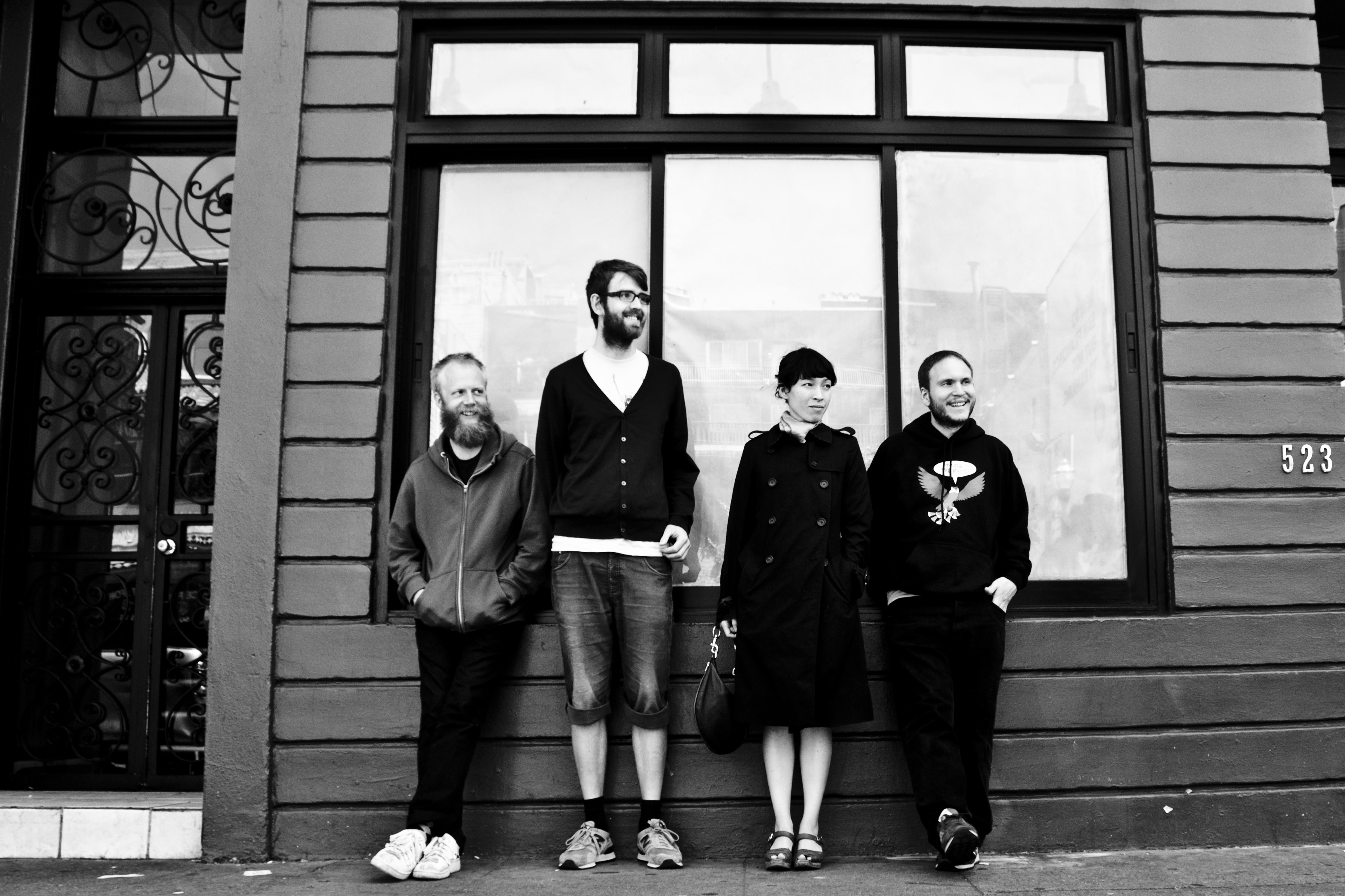 The members of Little Dragon during a photo shoot in San Francisco's North Beach neighborhood.